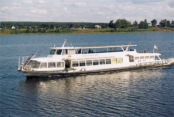 "MOSKVA-102" on Volga river in Yaroslavl (2003). Project R-51E